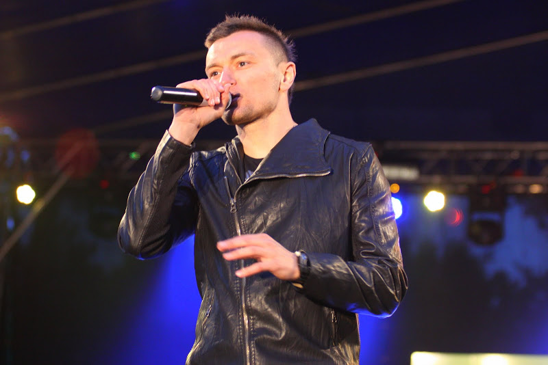 Polish rapper Liber